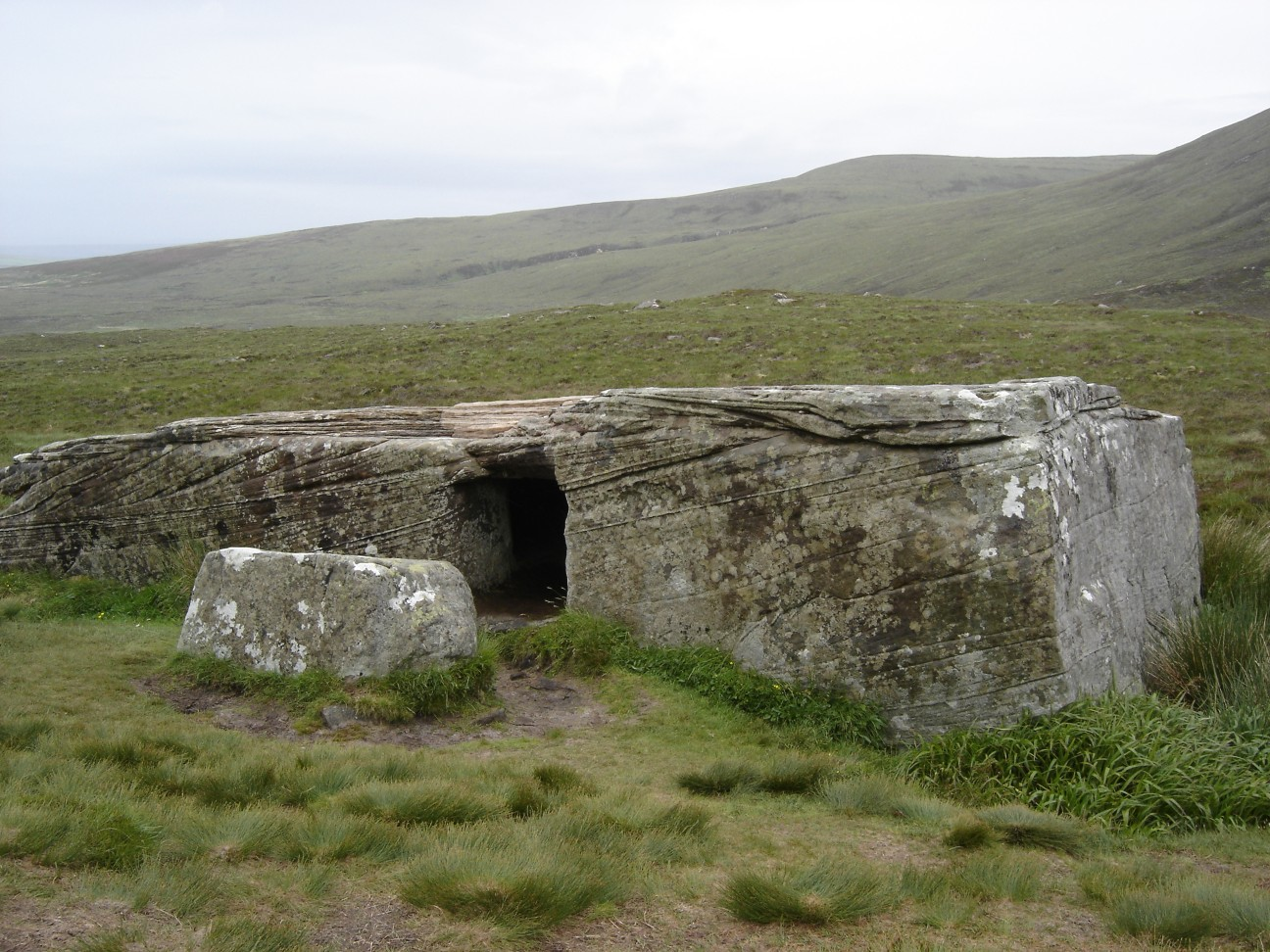 The so called 'Dwarfie Stane' (Dwarf's Stone) on the Island of Hoy, Orkney Islands, Scotland